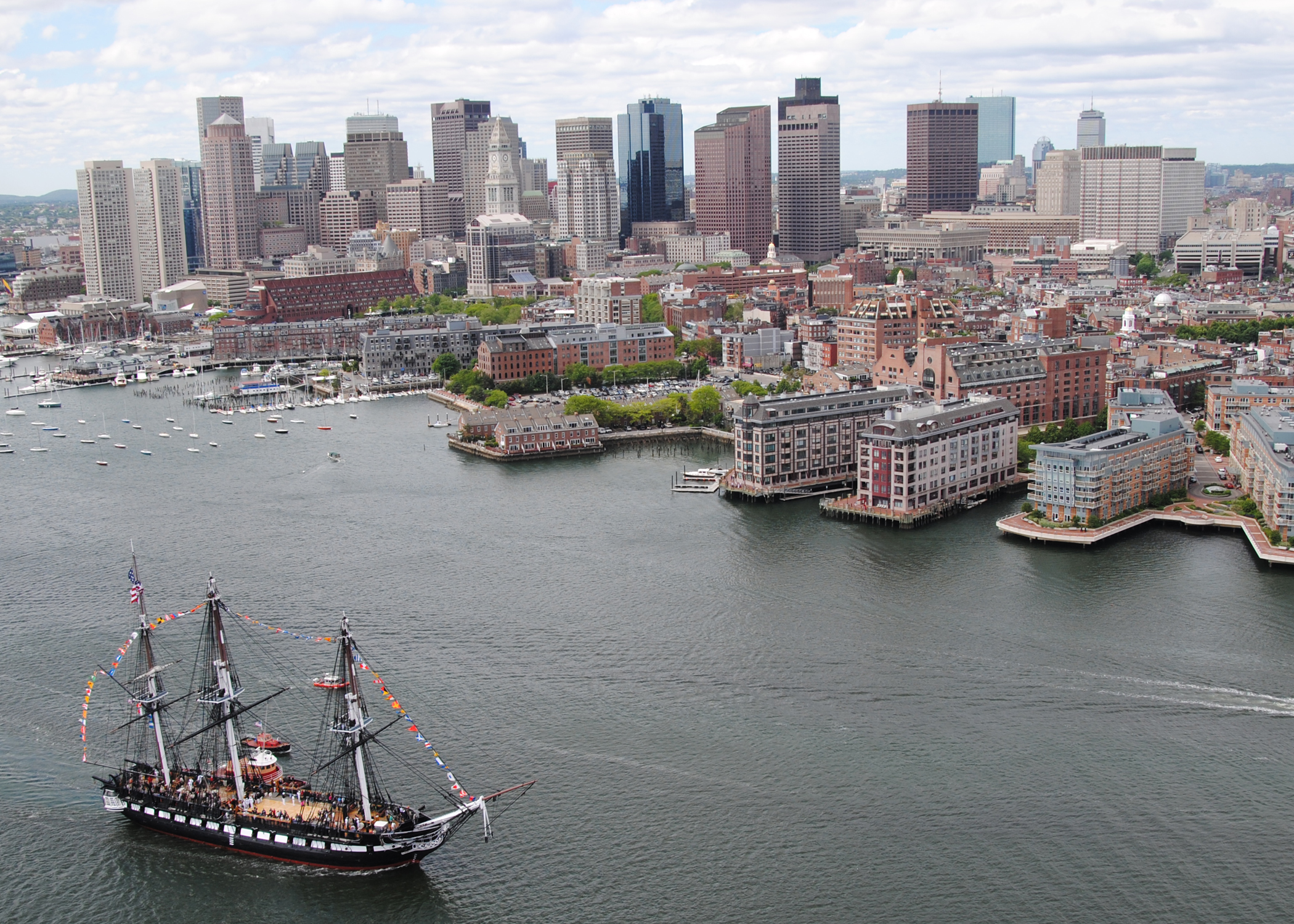 BOSTON HARBOR (June 3, 2011) USS Constitution sails into Boston Harbor during an underway Battle of Midway commemoration. The underway honored approximately 200 members of Gold Star Families who lost loved ones in Operations Enduring and Iraqi Freedom and the Navy's victory at Midway Island in World War II. (U.S. Navy photo by Mass Communication Specialist 2nd Class Kathryn E. Macdonald/Released) 110603-N-SH953-005